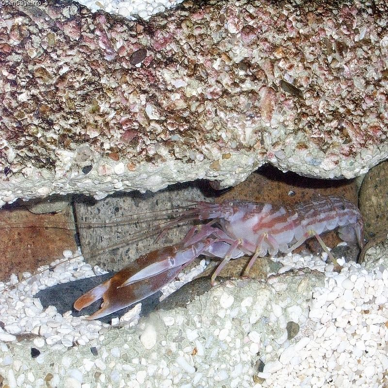 Pistol shrimp, Himeji City Aquarium